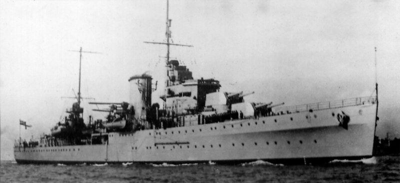 HMS Ajax (22), british cruiser during WWII